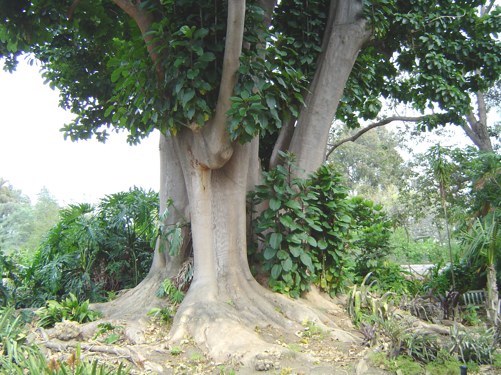 Ombú Tree (Phytolacca dioica) in Fullerton Arboretum